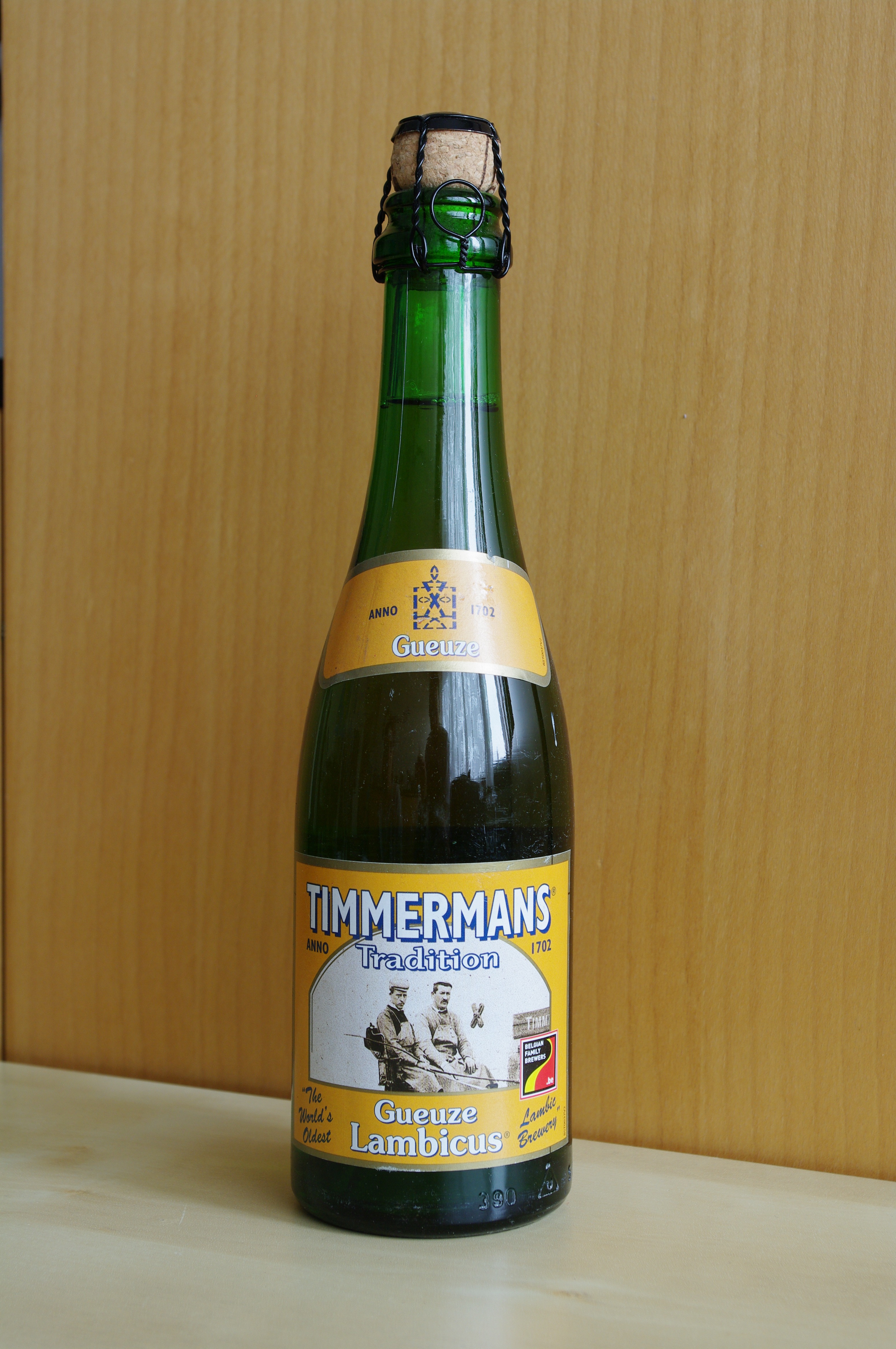 Timmermans Gueuze Lambicus beer